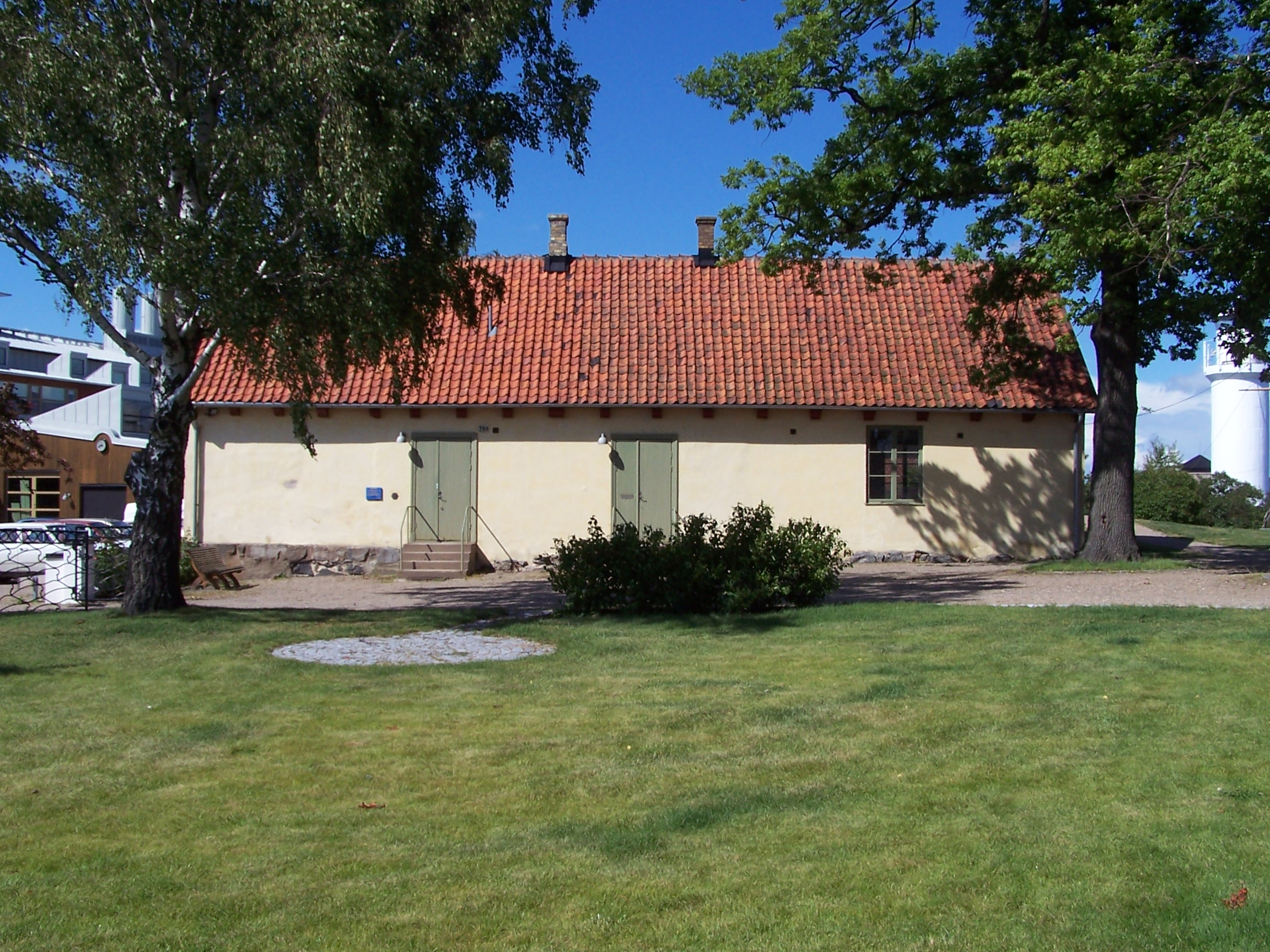 Epidemic hospital, Stumholmen, Karlskrona